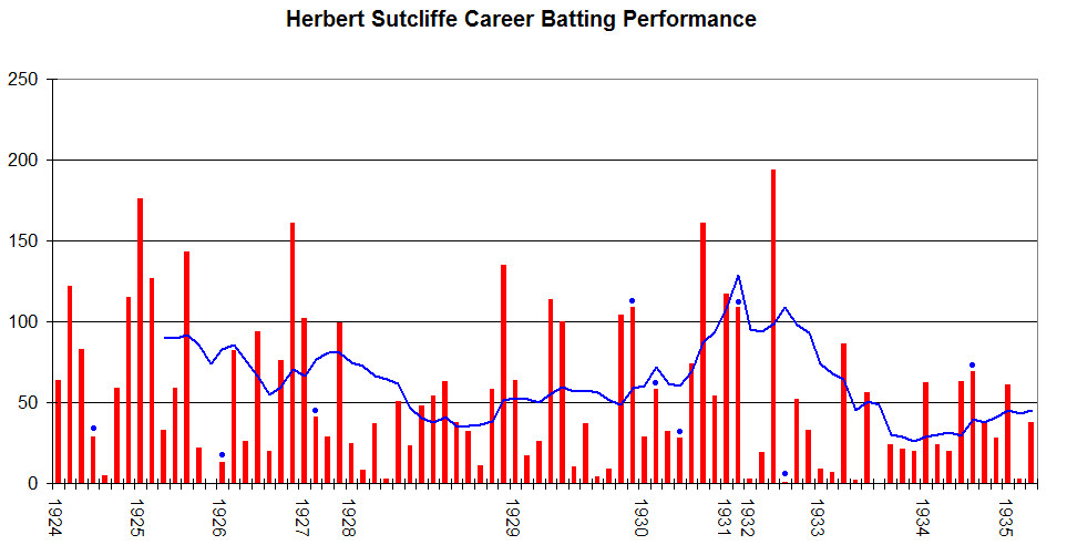 This graph details the Test Match performance of Herbert Sutcliffe. It was created by Raven4x4x. The red bars indicate the player's test match innings, while the blue line shows the average of the ten most recent innings at that point. Note that this average cannot be calculated for the first nine innings. The blue dots indicate innings in which Sutcliffe finished not-out. This graph was generated with Microsoft Excel 2002, using data from Cricinfo and .au.